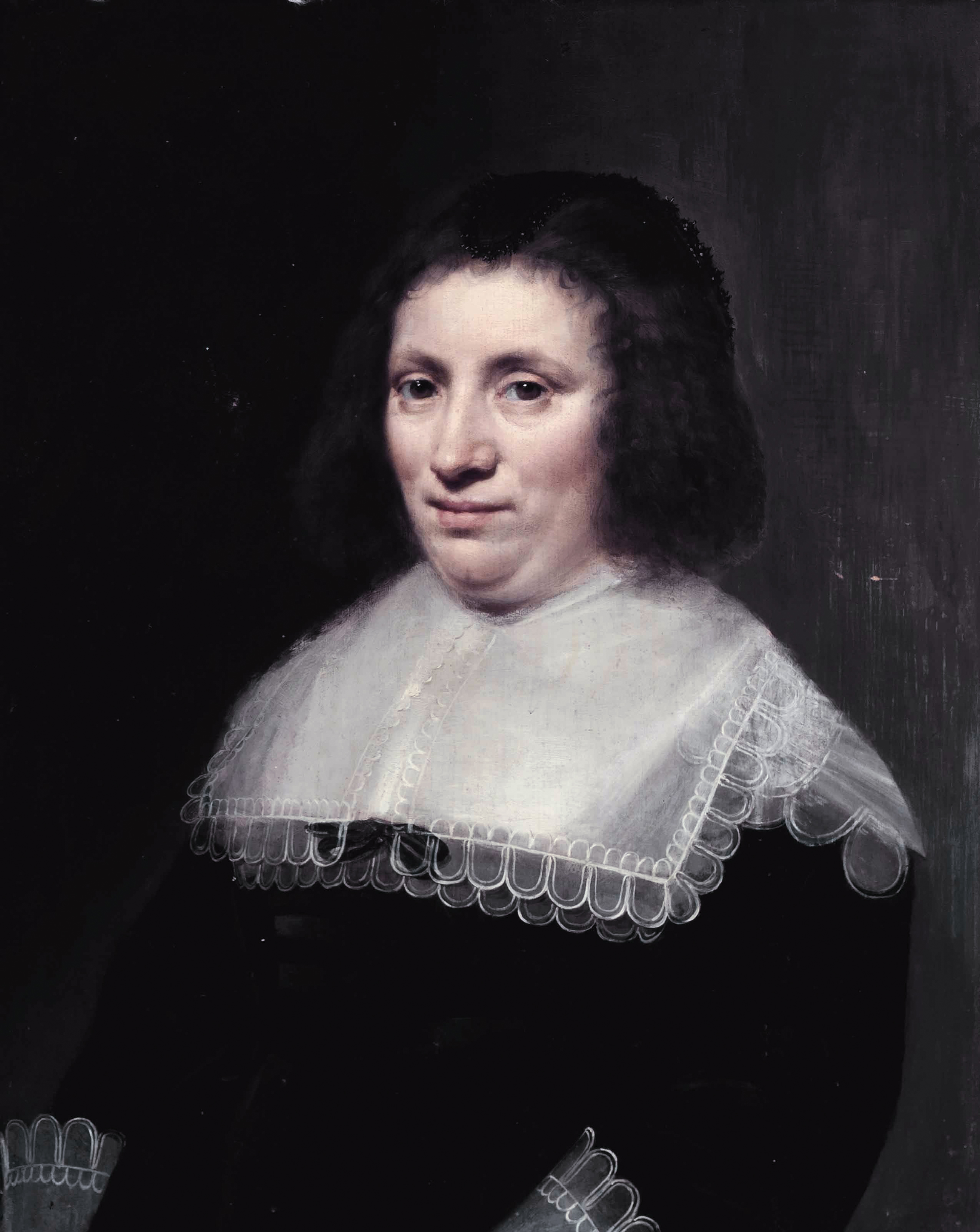 Maria Reigensbergen (1589-1653) oil on panel 67 x 54.5 cm inscribed verso: 'Maria Reigersbergen huisvrouw, van Hugo de Groot'